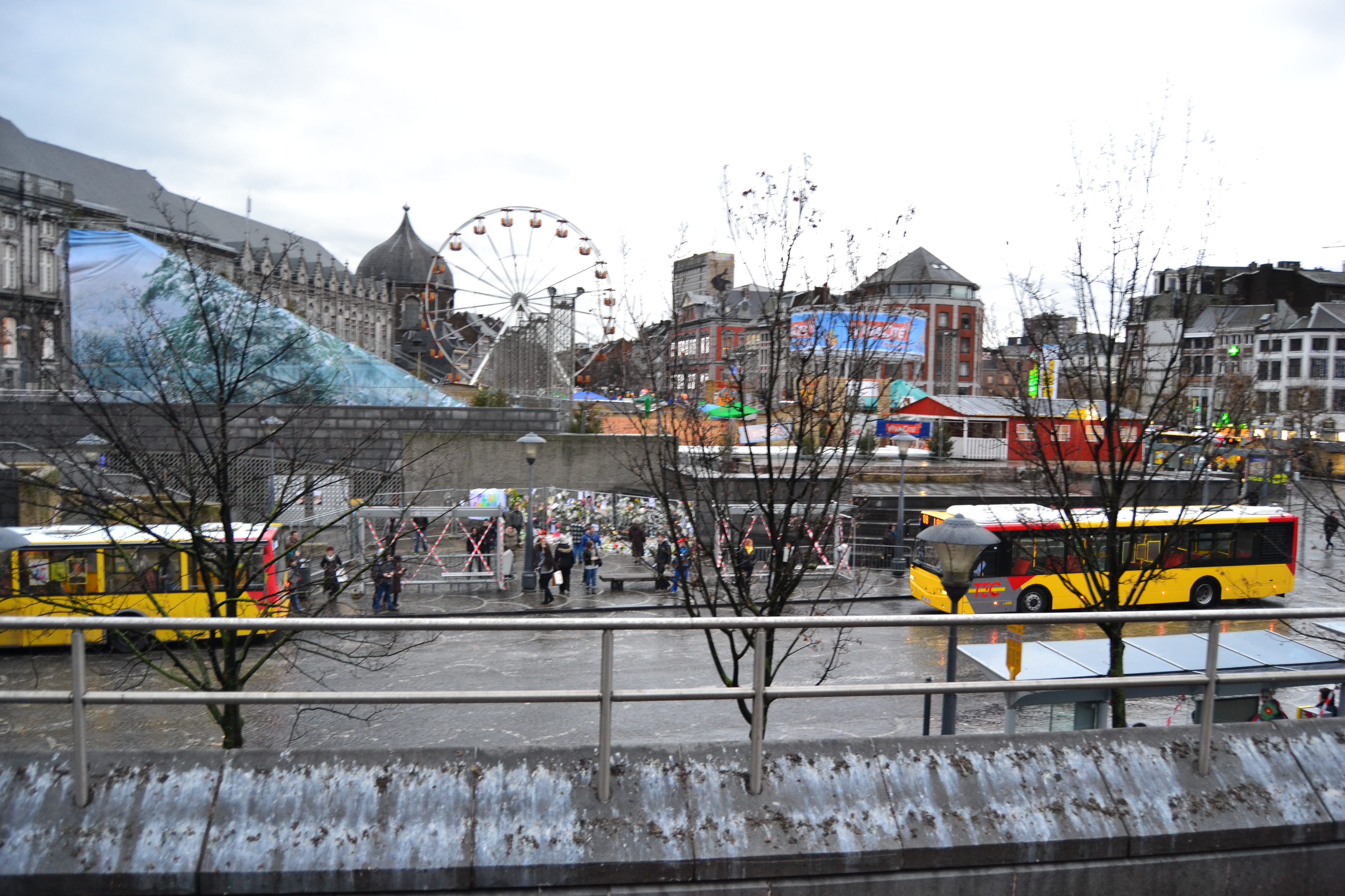 Killer's view over the bus stops of St Lambert Square in Liège, Belgium (13/12/2011 attack; 3 days later)